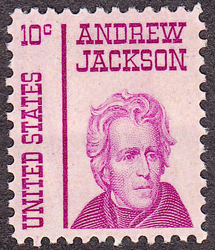 US Postage stamp: Andrew Jackson, Issue of 1967, 10c